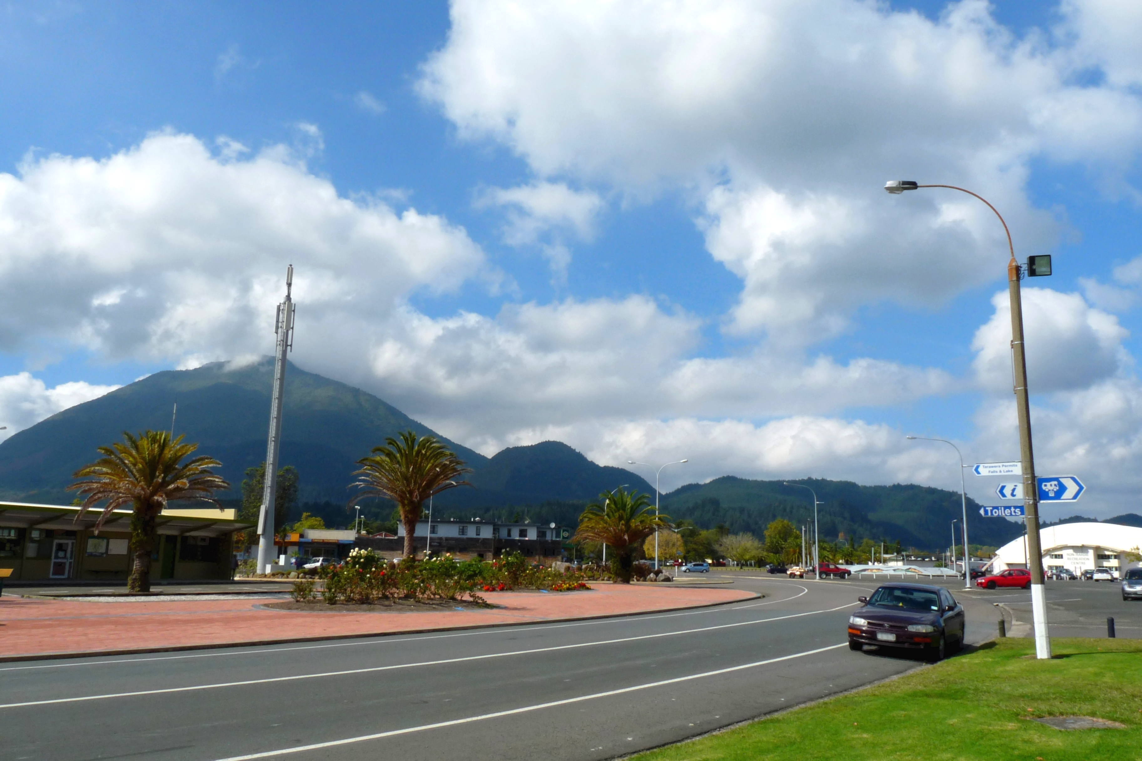 Photograph taken near Prideaux Park, Kawerau. In the shot, the Information Centre (left), Kawerau Hotel (centre) and Ron Hardie Recreational Centre (far right) can be seen, along with Mt. Edgecumbe (Putauaki) in the background.